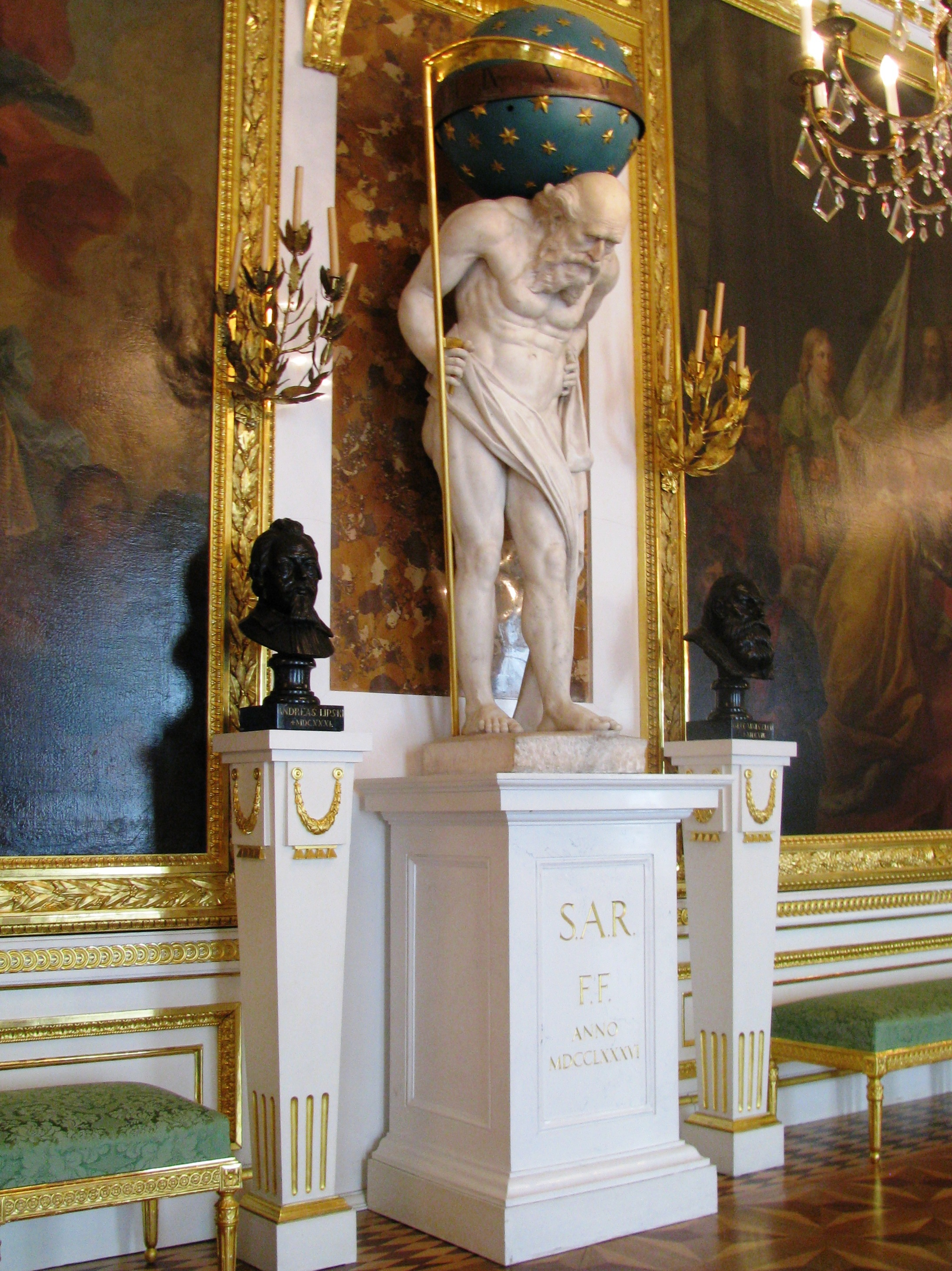 Sculpture of Chronos in Knights' Hall of Royal Castle, Warsaw (Warszawa). The Scotch Mist Gallery contains many photographs of historic buildings, monuments and memorials of Poland.